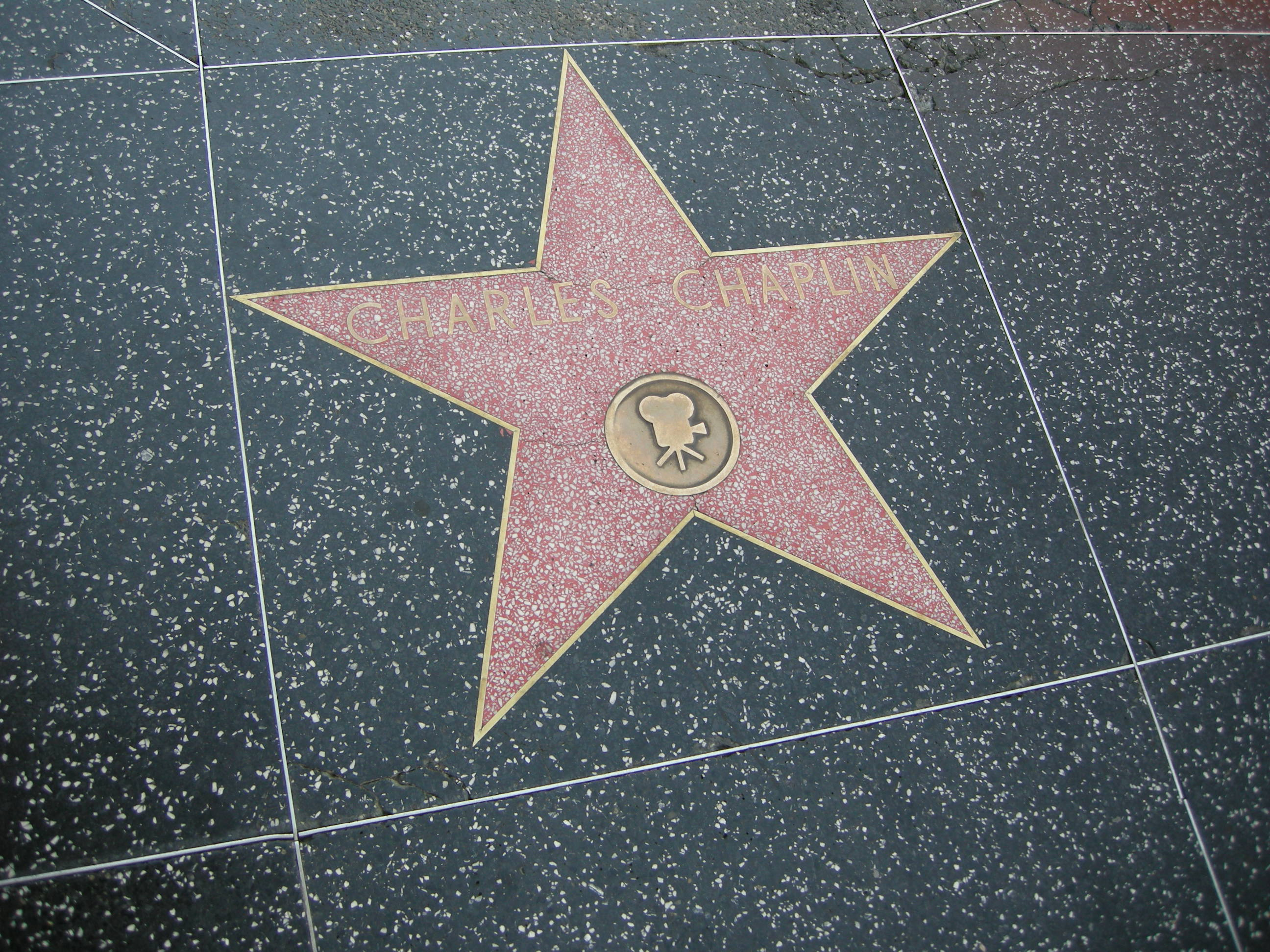 Walk of fame, charlie chaplin